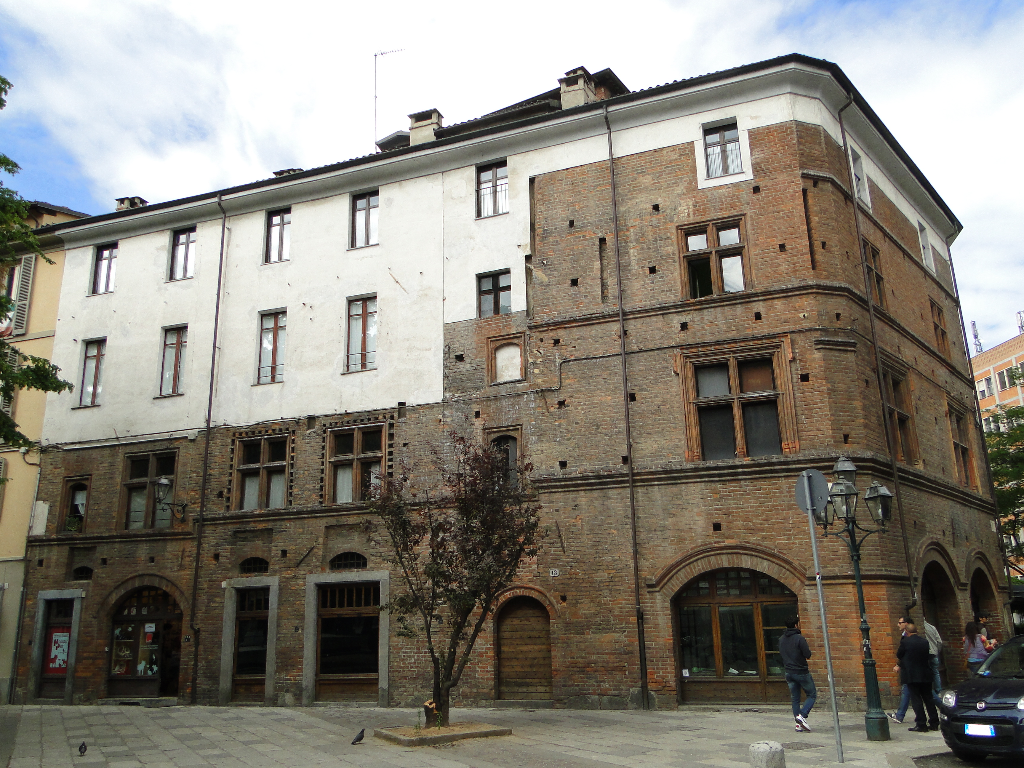 Anonimous old (Middle Age?) House in Turin, 4 Marzo square